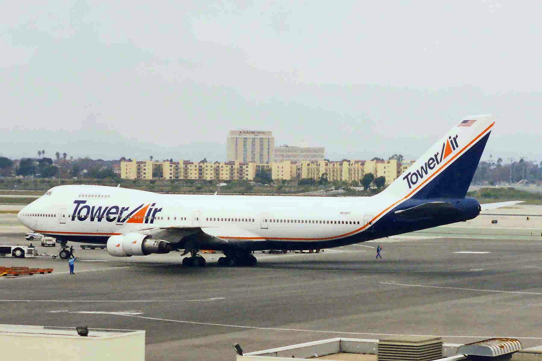 A picture of an airplane